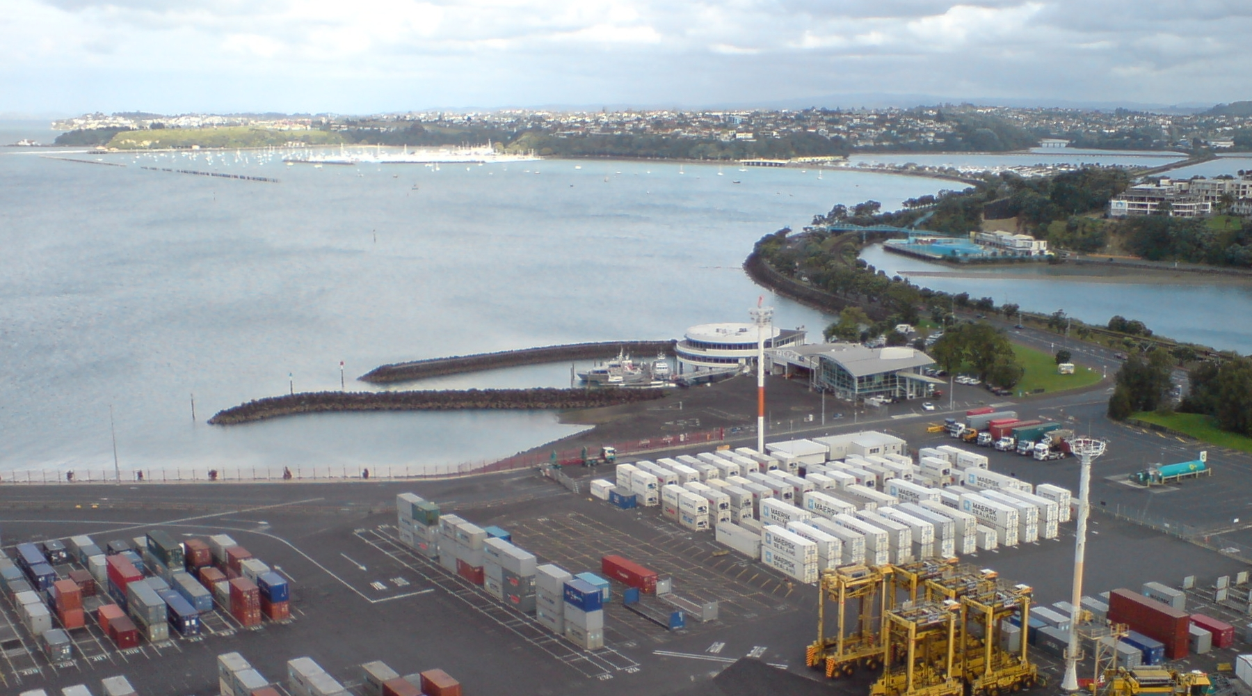 The Auckland Marine Rescue Centre in Auckland City, New Zealand. Seen from one of the Ports of Auckland cranes nearby, looking approximately east. Parnell baths in the background towards Hobson Bay in the east, with Tamaki Drive running along the embankement.